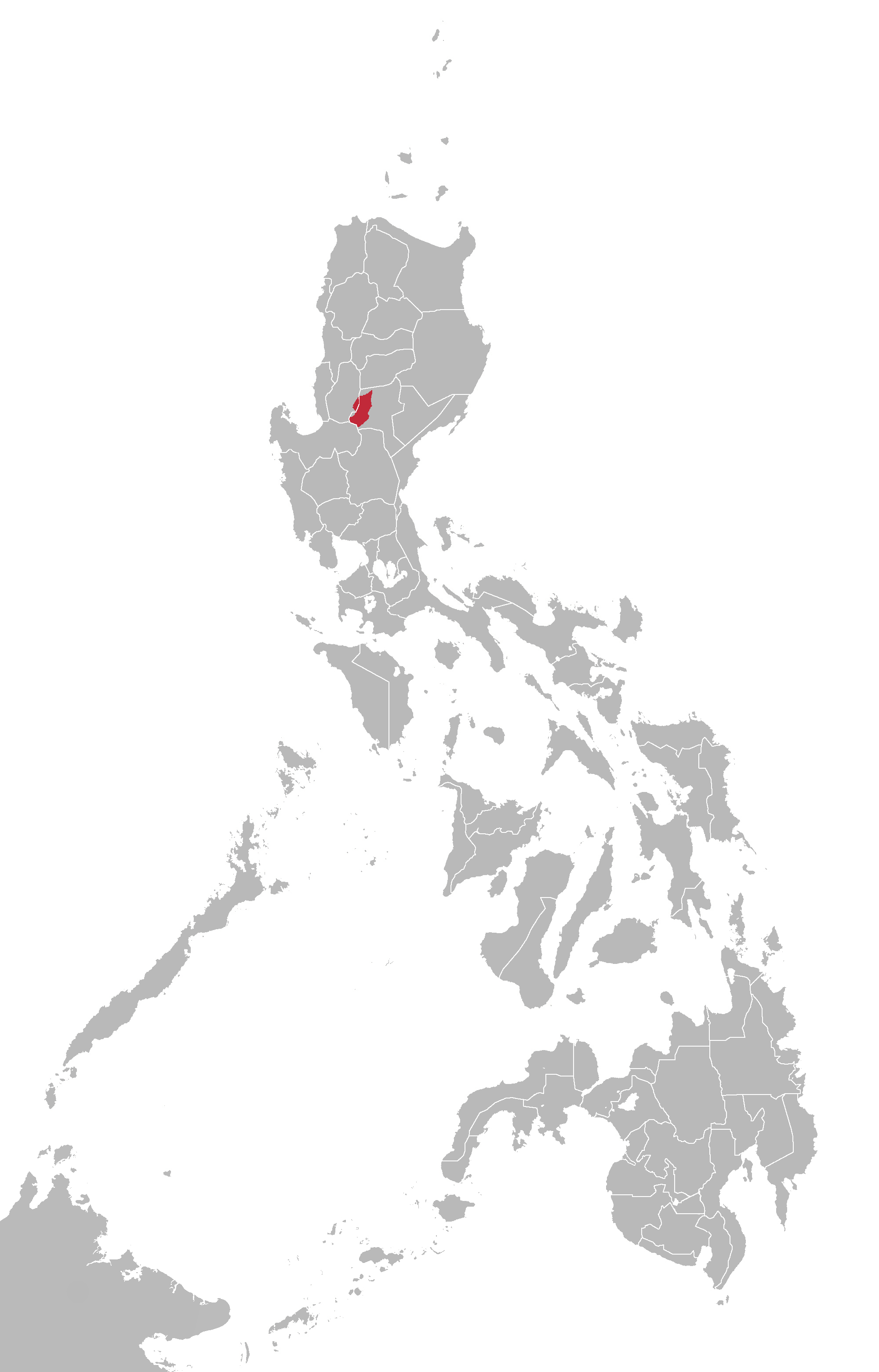 Kallahan language map based on Ethnologue maps